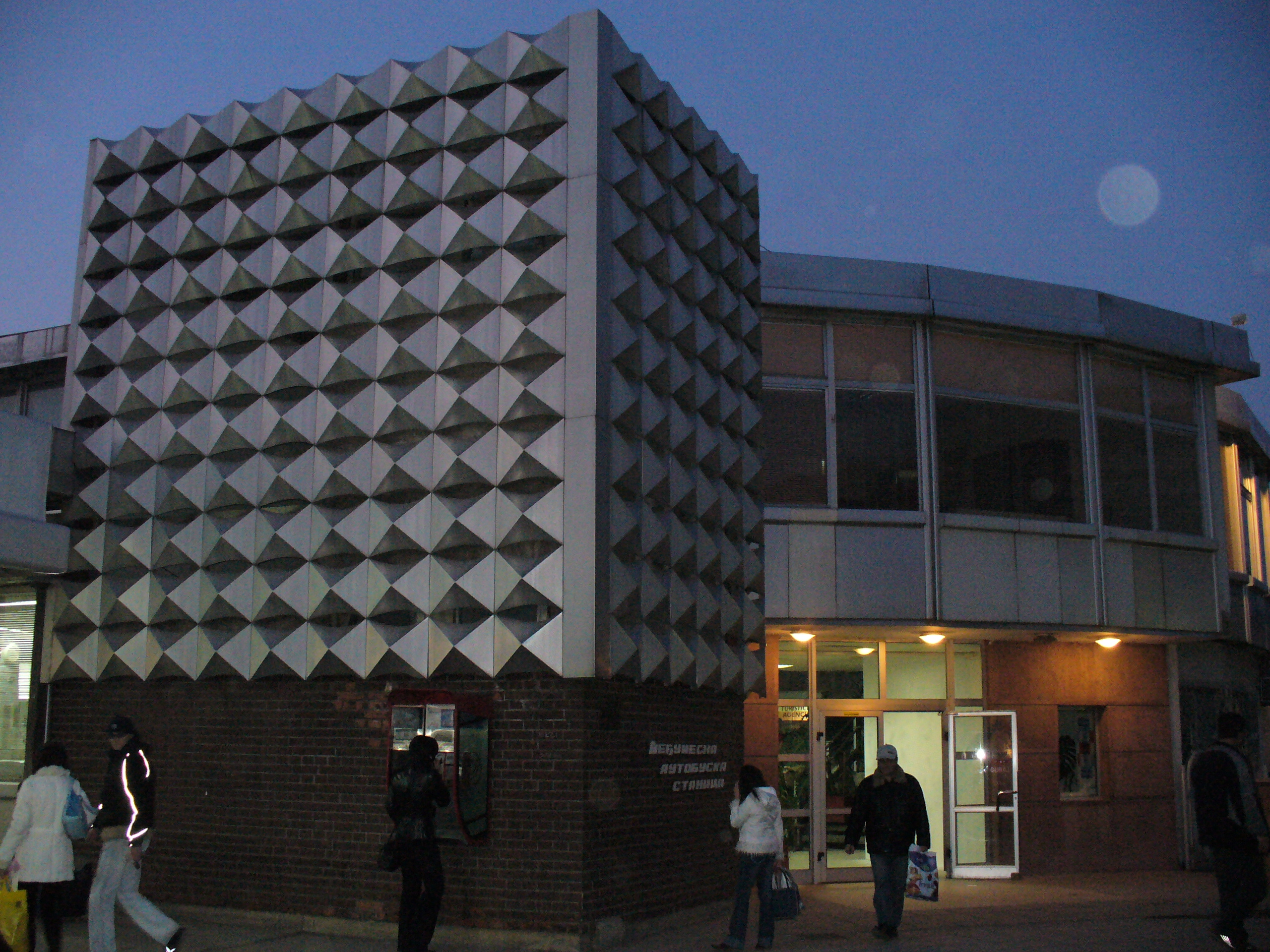 Bus station in Niš,Serbia.